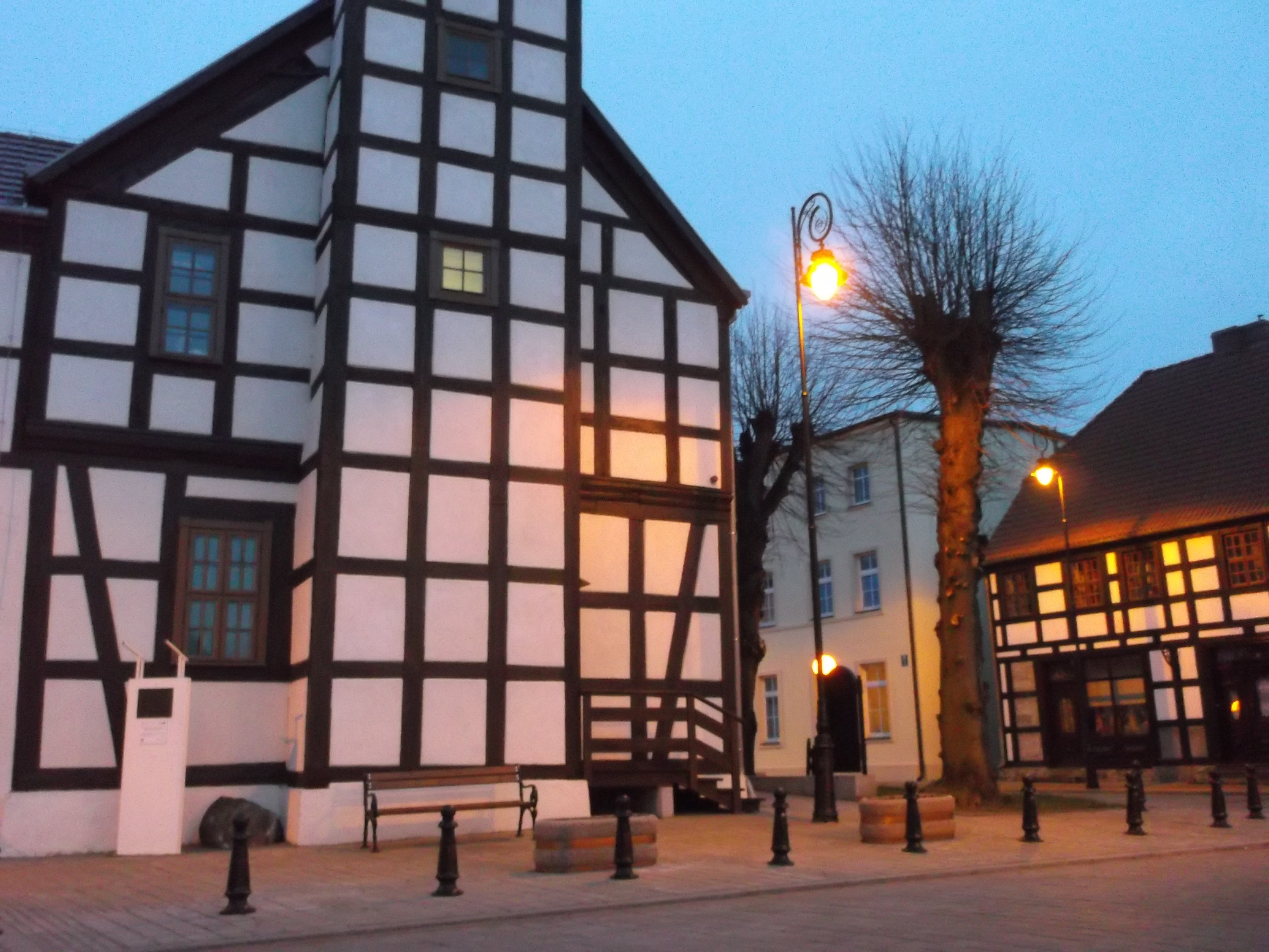 The Old Town of Nowe Warpno (Poland). Zwycięstwa Square with Town Hall and square buildings